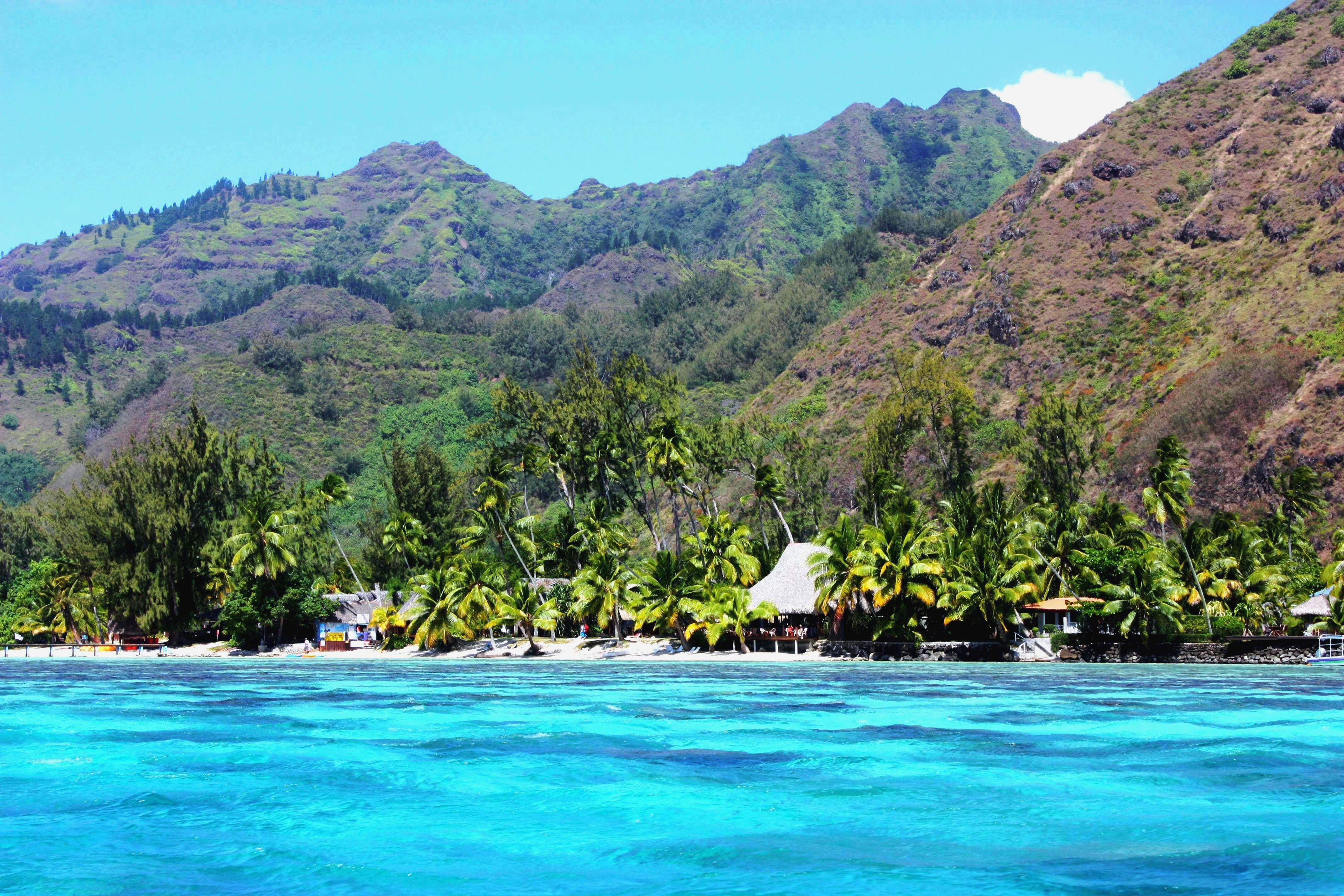 This photo show the main Island Mountain from the external Motu Mooréa is the high island with mountain in the main island ancient vulcano. Any village and resort are situated near the blue Lagoon